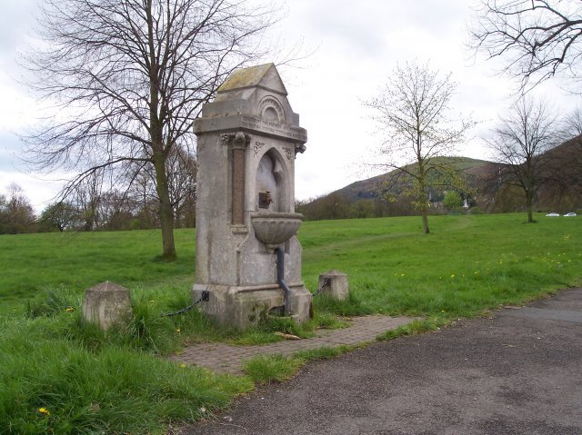 The Temperance Fountain, Malvern Link. Recently restored to working order this fountain has the inscription : Erected by members and friends of the British Womens Temperance Association.